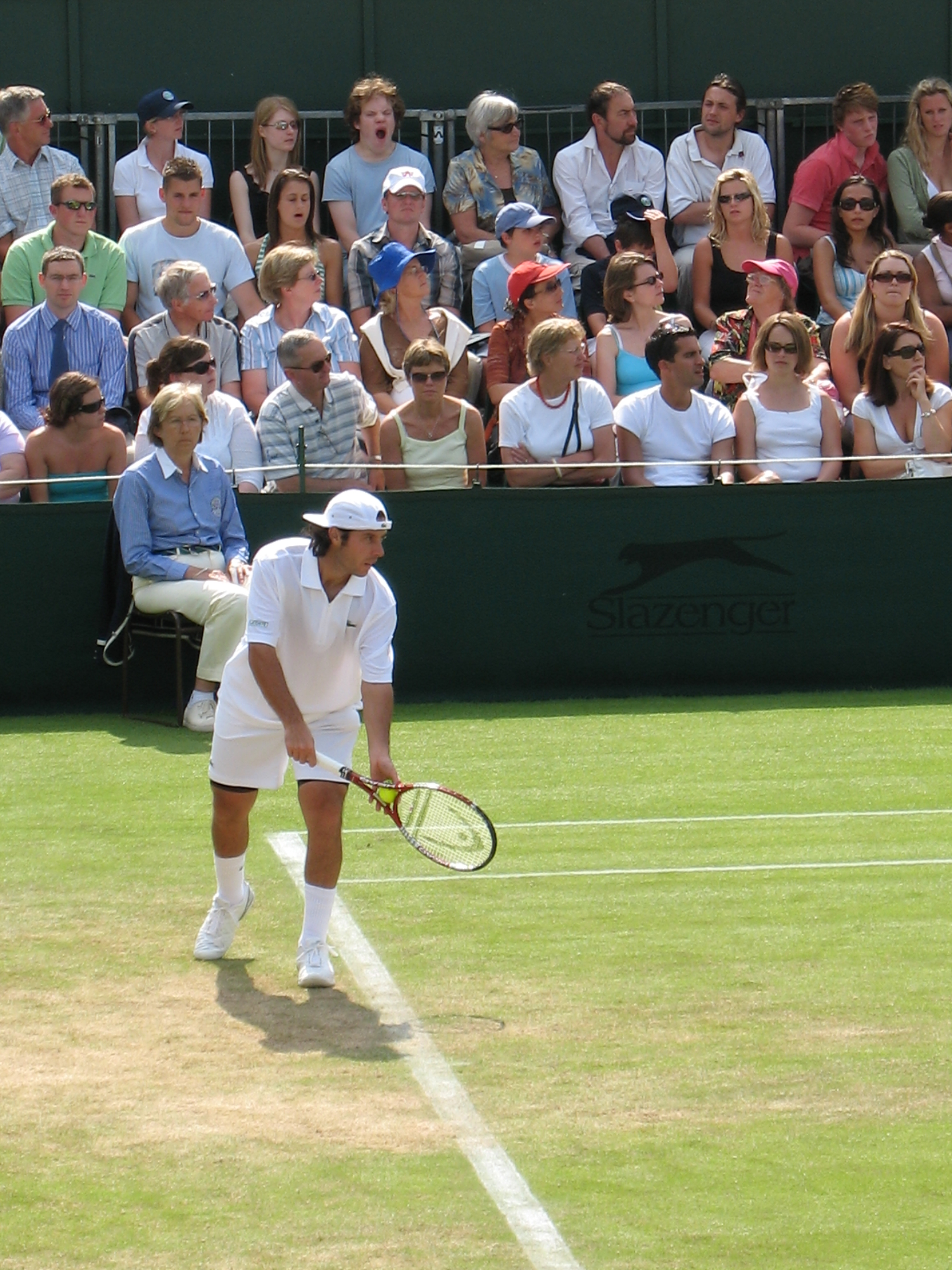 Sébastien Grosjean at Wimbledon in 2006.